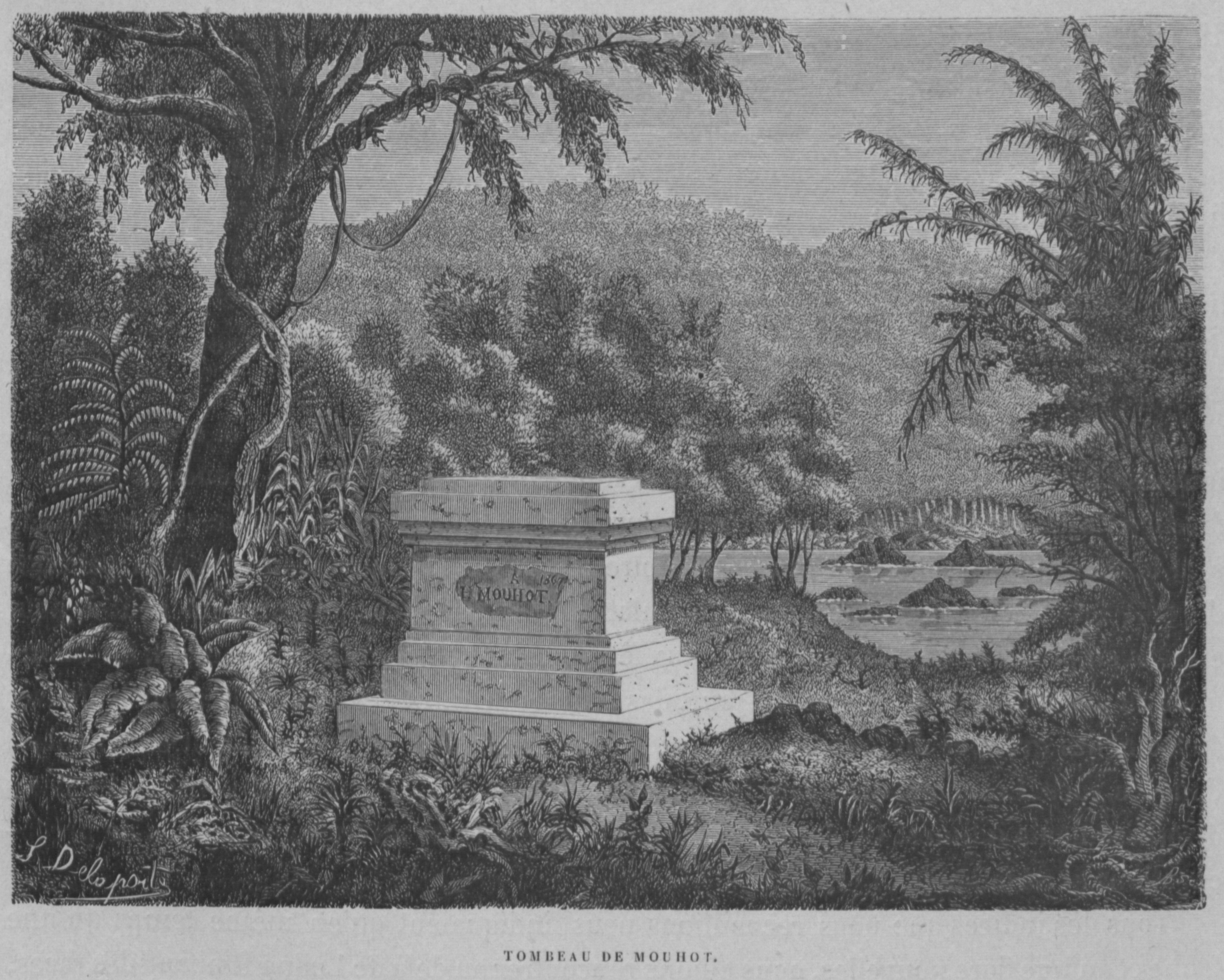 Voyage d'exploration en Indo-Chine (1873, Francis Garnier)